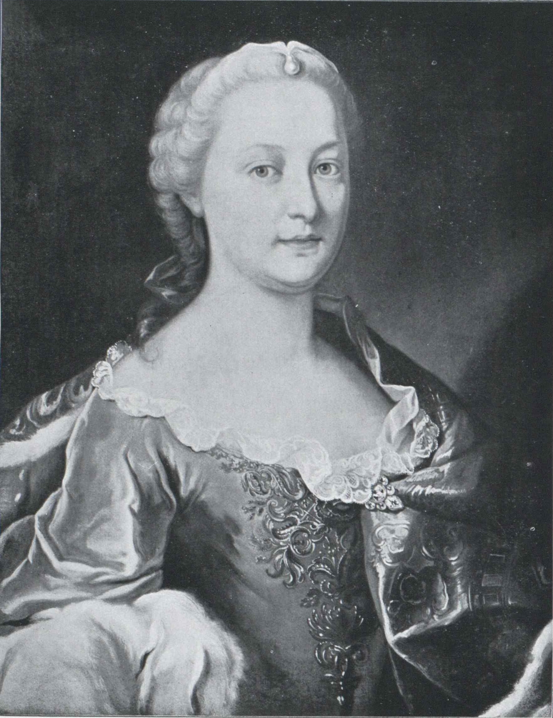 Countess Leopoldine von Sternberg (1733-1809)